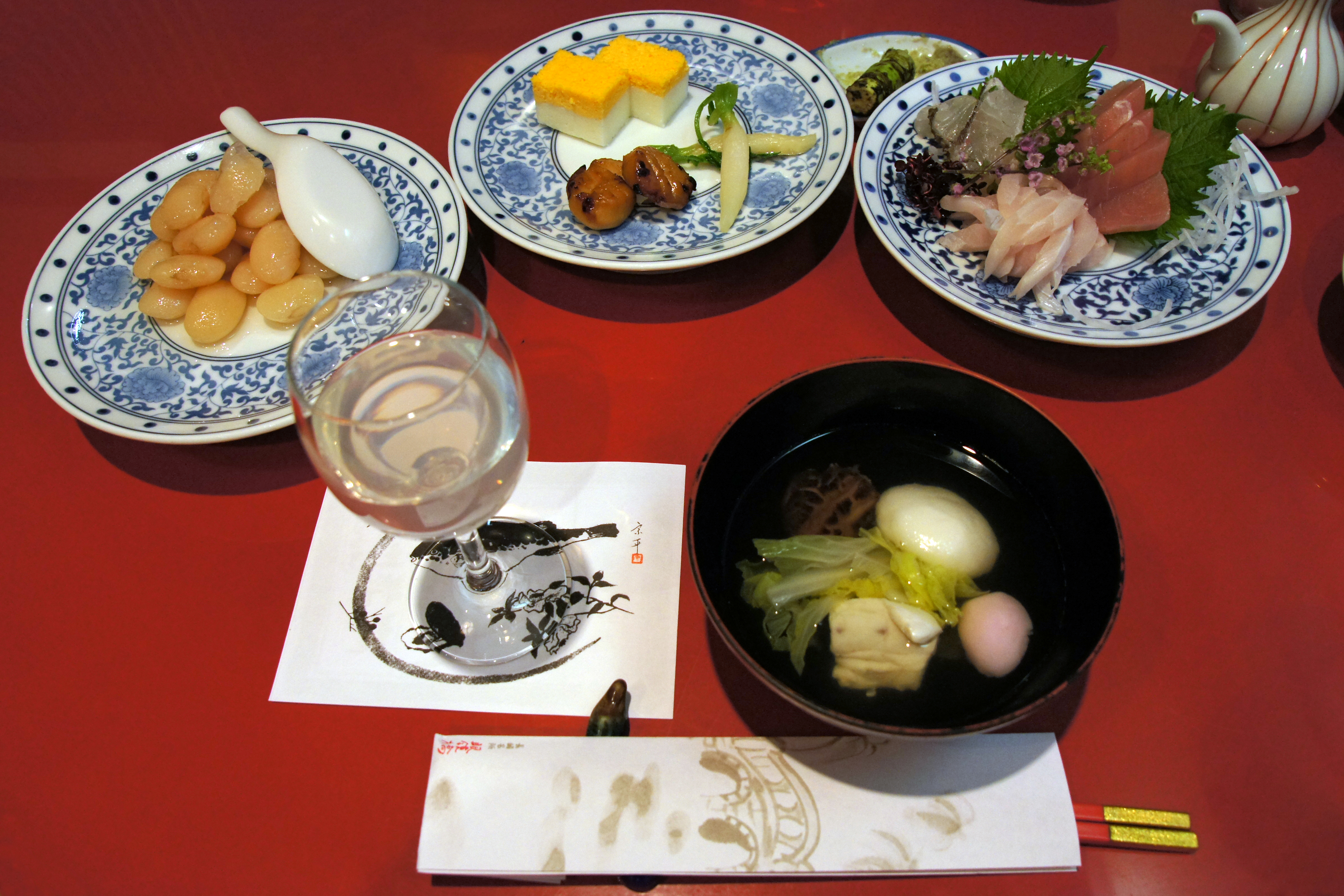 Shippoku cuisine at "Nagasaki Shippoku Hamakatsu" in Nagasaki, Nagasaki prefecture, Japan